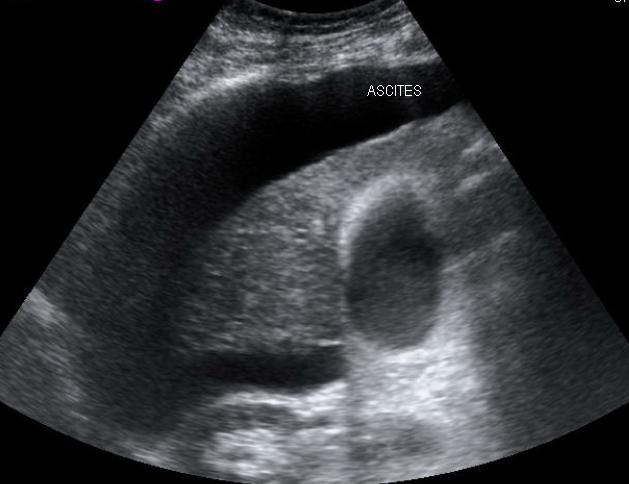 Ultrasound image demonstrating a cirrhotic liver and ascites. Investigation was ordered by me. A signed written consent for release has been obtained from patient. Ascites is labelled.